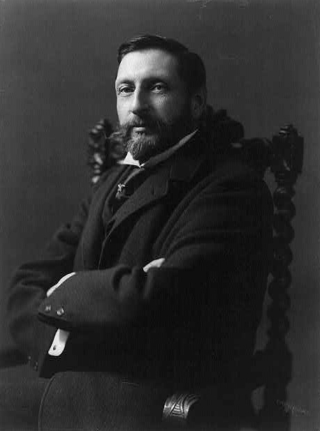 English writer Henry Rider Haggard (1856-1925)